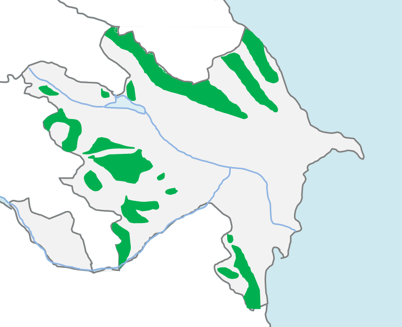 Map of the natural forests of Azerbaijan.